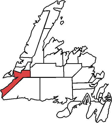 Maps based on images by Earl Warren, from the 2007 elections